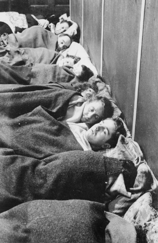 Shelter Photographs Taken in London by Bill Brandt, November 1940 A row of shelterers lie asleep in a North London air raid shelter. The wall against which they are resting their heads is actually that of the latrines!